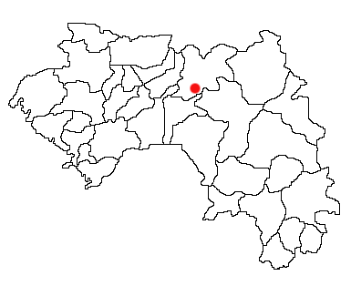 Dinguiraye, Guinea Location Map; created with the GIMP. Made by User:Acntx.